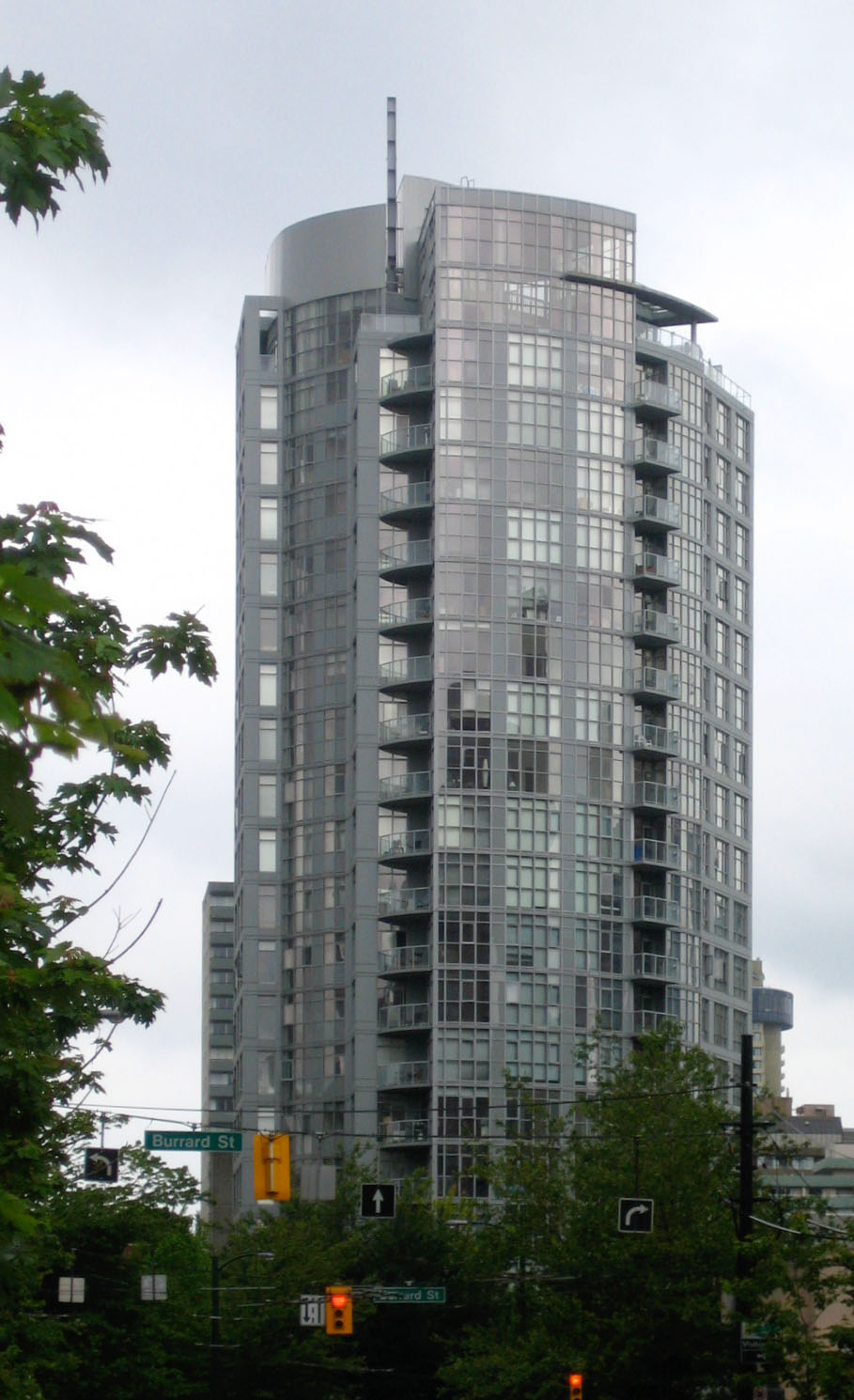 Penthouse apartments at the top of a high rise building in Vancouver, B.C..